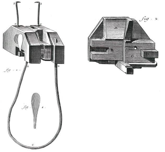 Typefoundry Mould